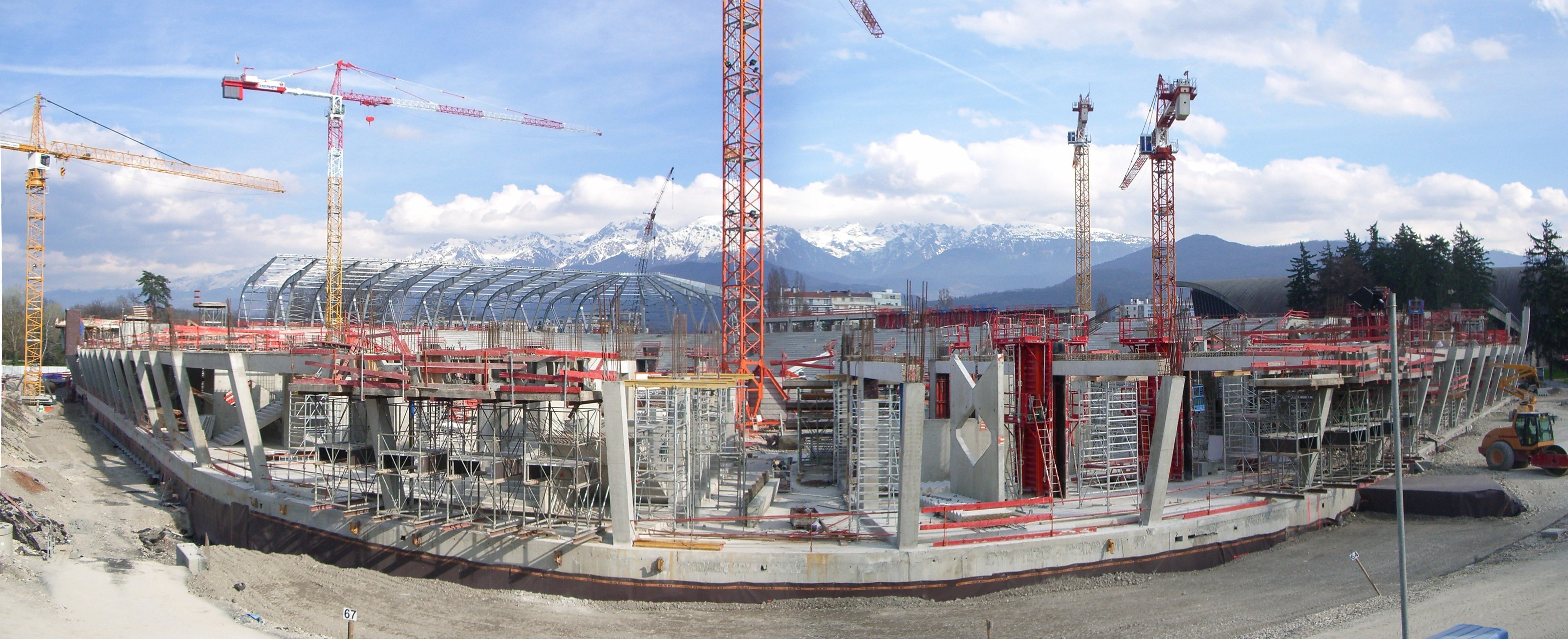 Grenoble stadium under construction